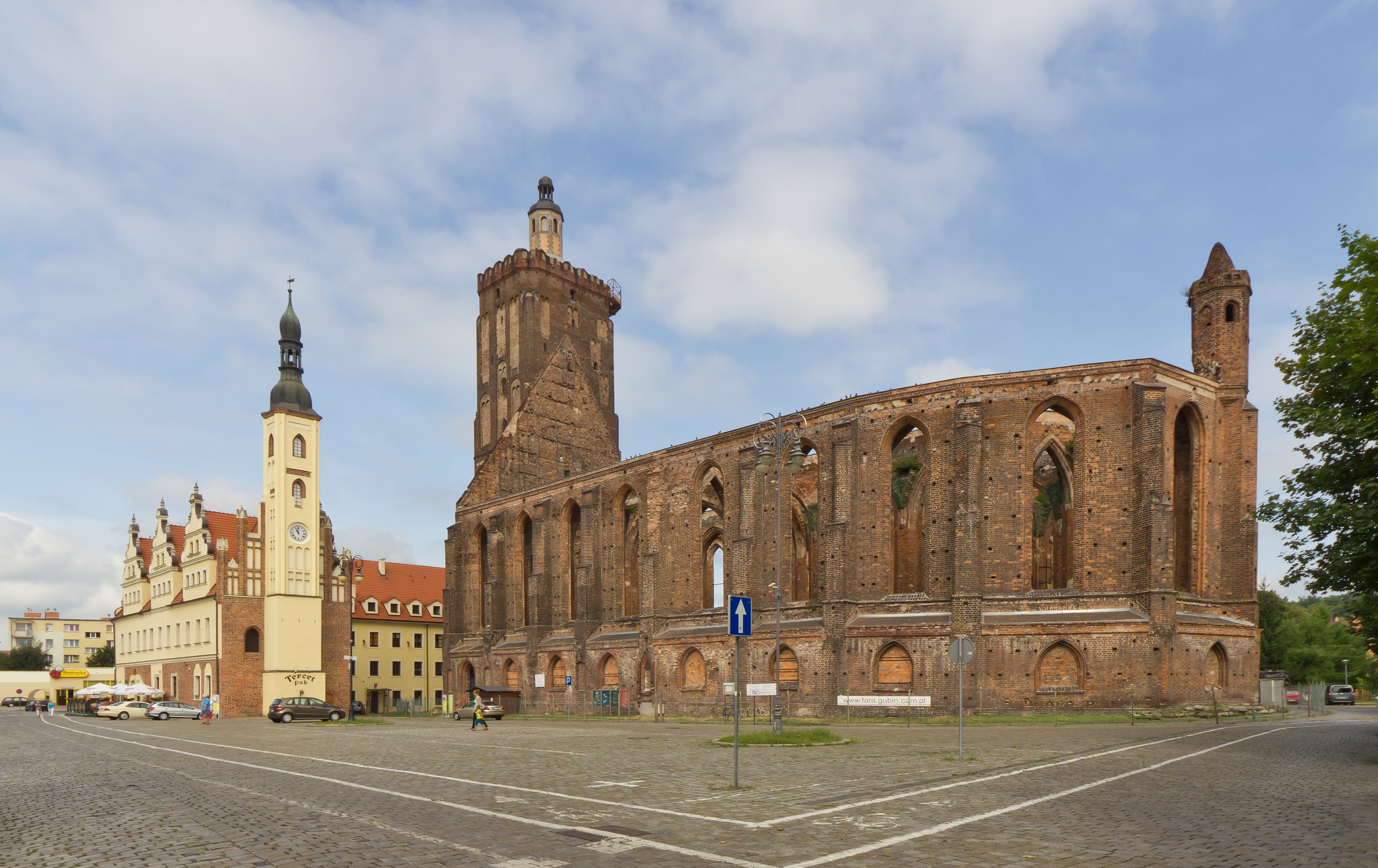 Town Hall and the city church ruins in Gubin, Lubusz Voivodeship, Poland